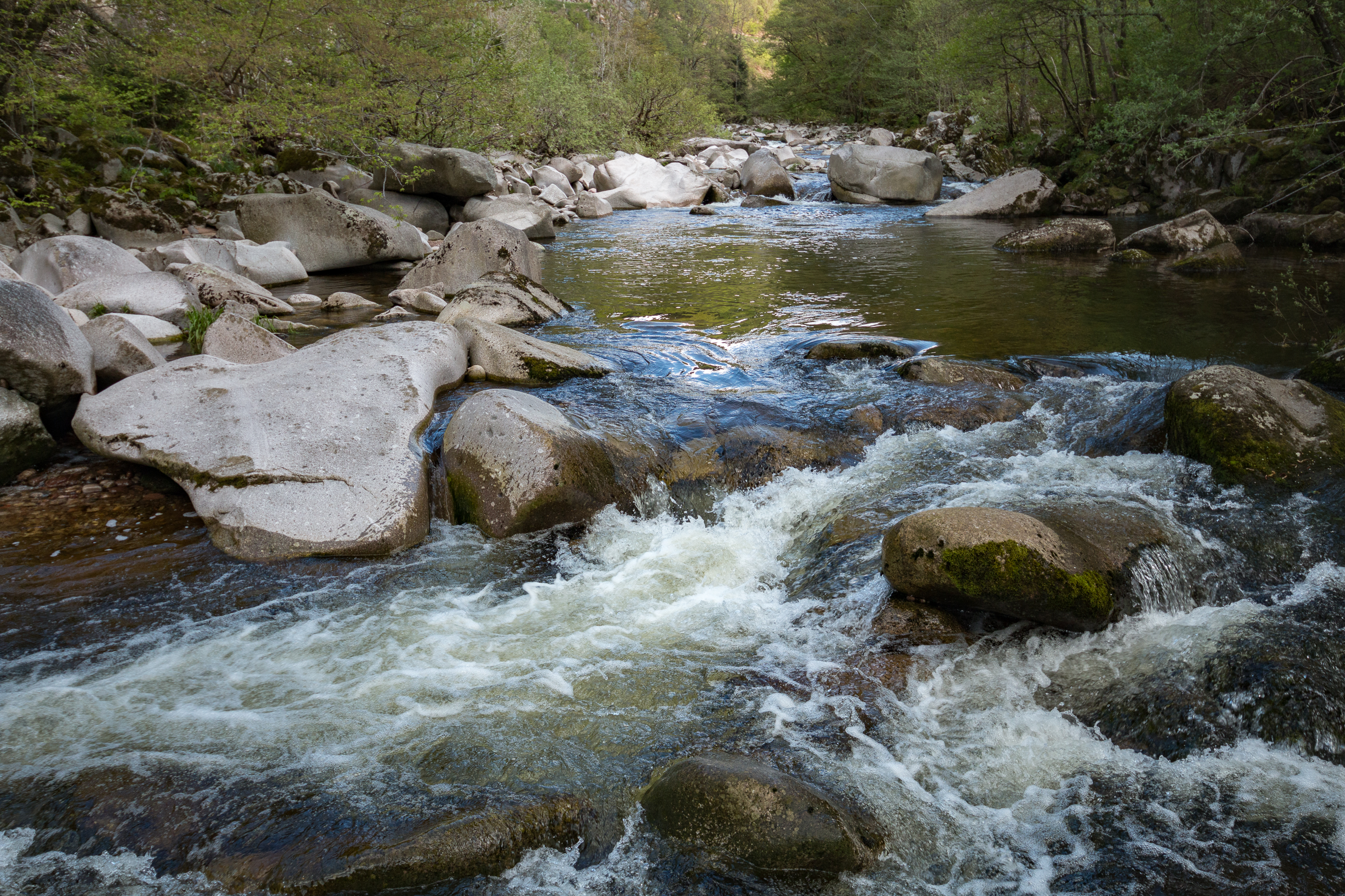 The river Murg near Raumünzach, Forbach